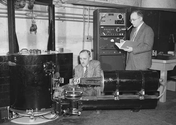 Ernest Wollan and Clifford Shull taking data on a double-crystal neutron spectrometer, installed on the south face of the ORNL graphite reactor in 1949.